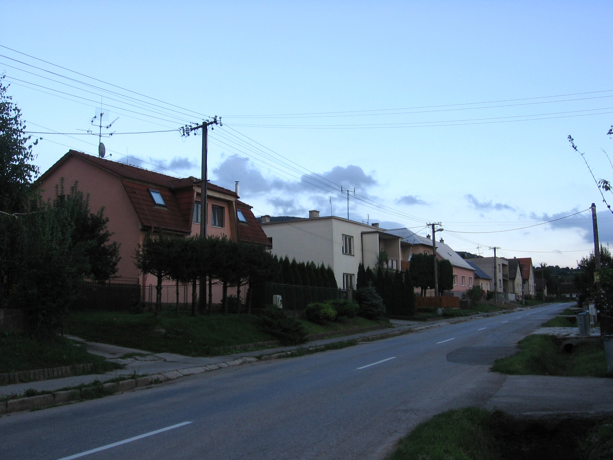 Main street in the village Mníchova Lehota, Trenčín district, Western Slovakia.